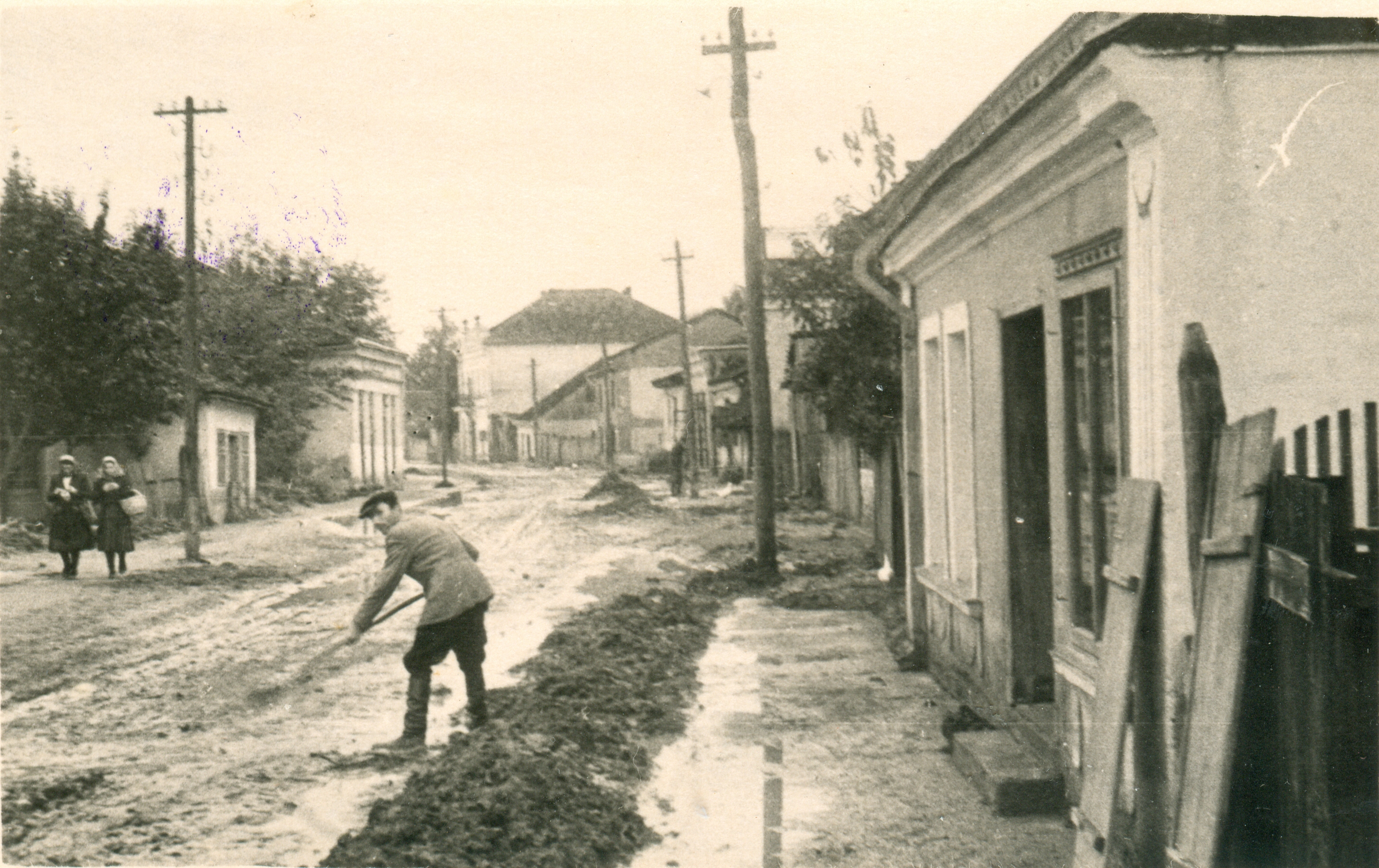 Natural disasters in Brza Palanka near Kladovo 1956. Srpski (latinica): Elementarne nepogode pogodile su Brzu Palanku kod Kladova 1956.